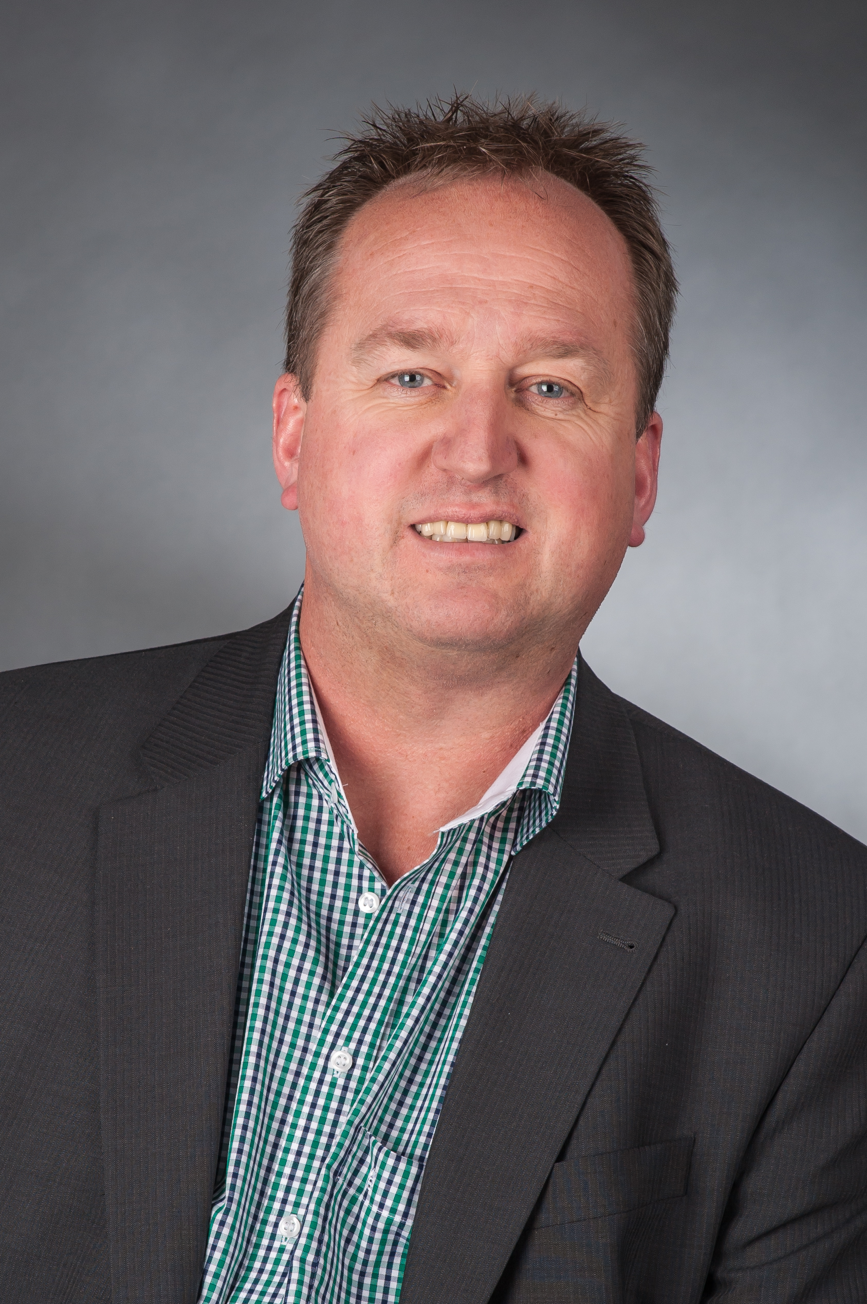 Wikipedia im Landtag – Niedersachsen 17. bis 18. April 2013 in Hannover Personality rights warningAlthough this work is freely licensed or in the public domain, the person(s) shown may have rights that legally restrict certain re-uses unless those depicted consent to such uses. In these cases, a model release or other evidence of consent could protect you from infringement claims.